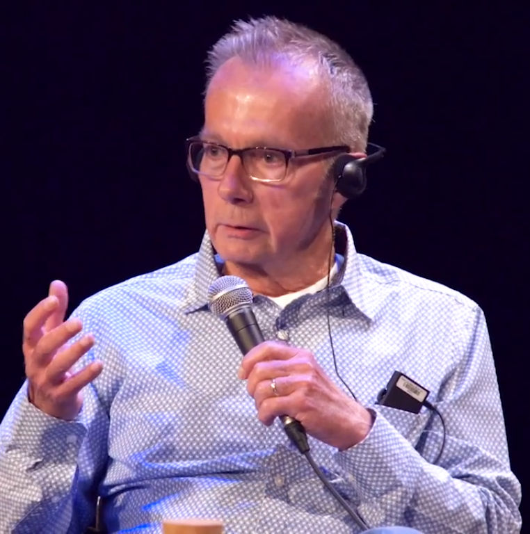 American writer Donald Ray Pollock, in the FOLIO - Óbidos International Literary Festival, Portugal, 2019.